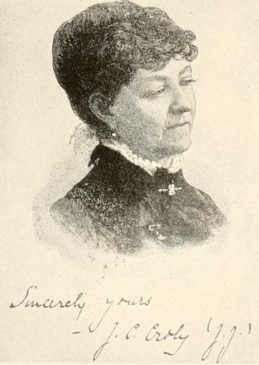 Engraved portrait of American journalist Jane "Jennie" Cunningham Croly (1829-1901), also known by the pseudonym "Jennie June". From American Women: Fifteen Hundred Biographies with Over 1,400 Portraits, Frances E. Willard and Mary A. Livermore, editors. Mast, Crowell & Kirkpatrick, 1897 (revised edition from 1893), vol. 1, p. 217.